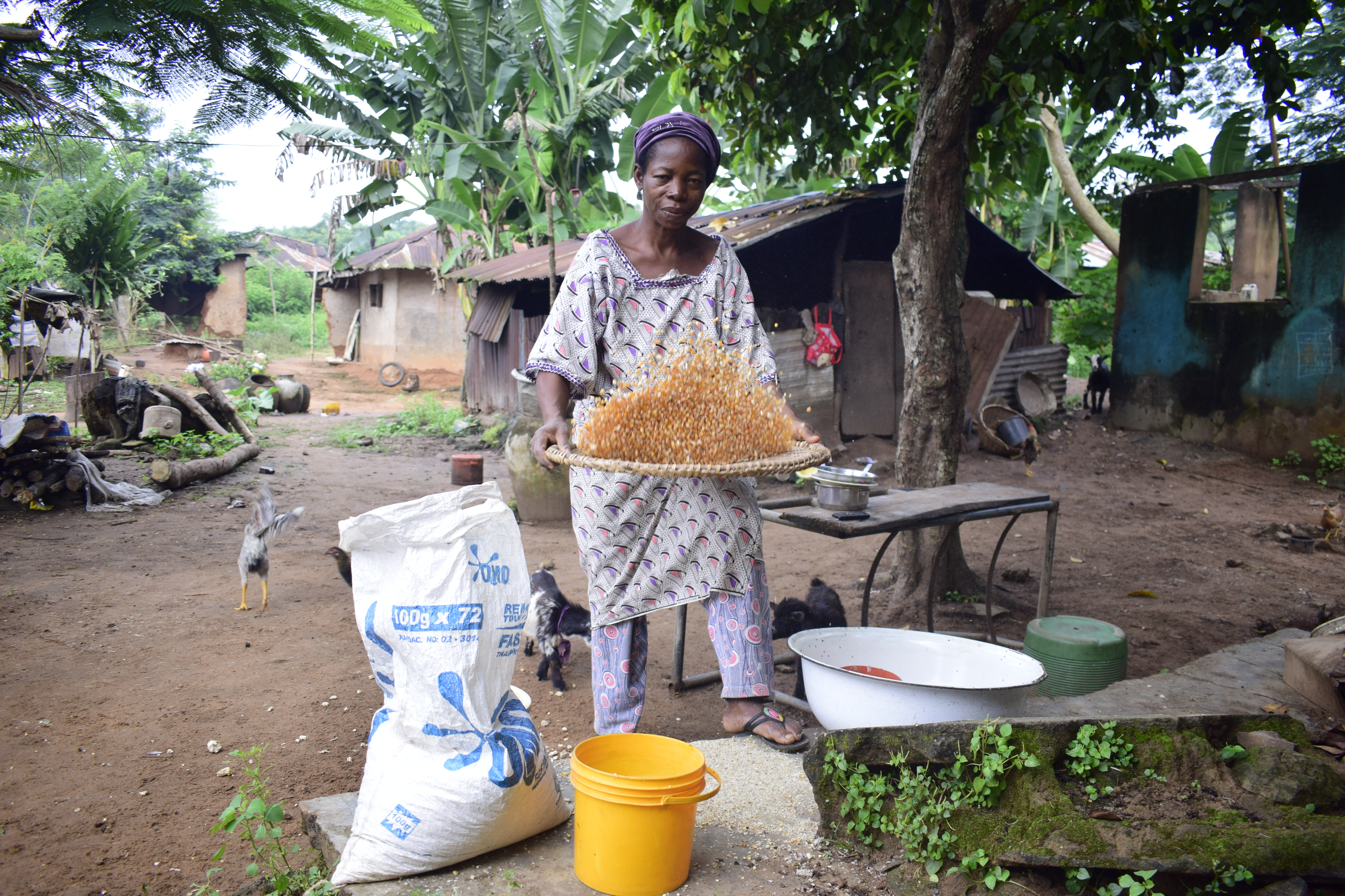 Corn seller winnowing continues. This is an image of "African people at work" from Nigeria